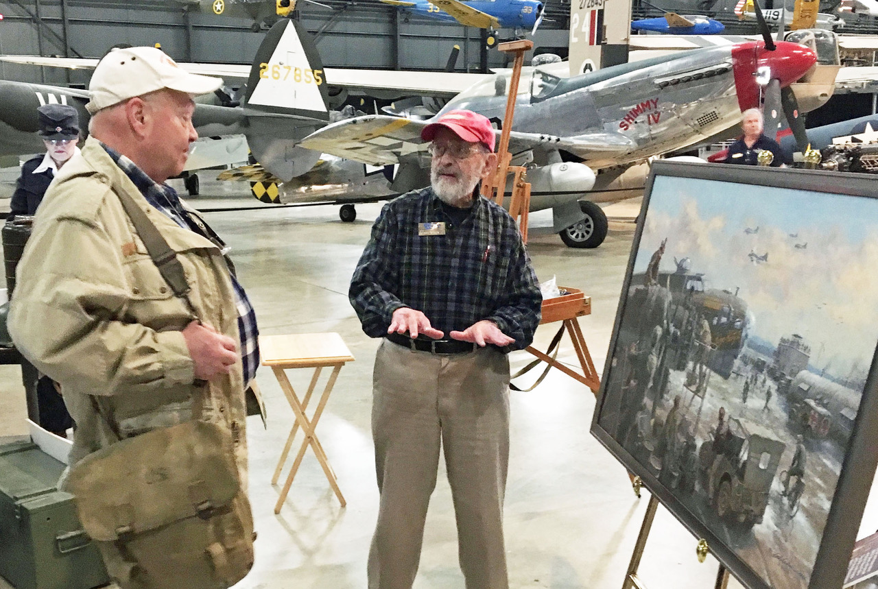 Aviation artist, Gil Cohen, discusses an image of a WWII airfield with a visitor to the National Museum of the United States Air Force.